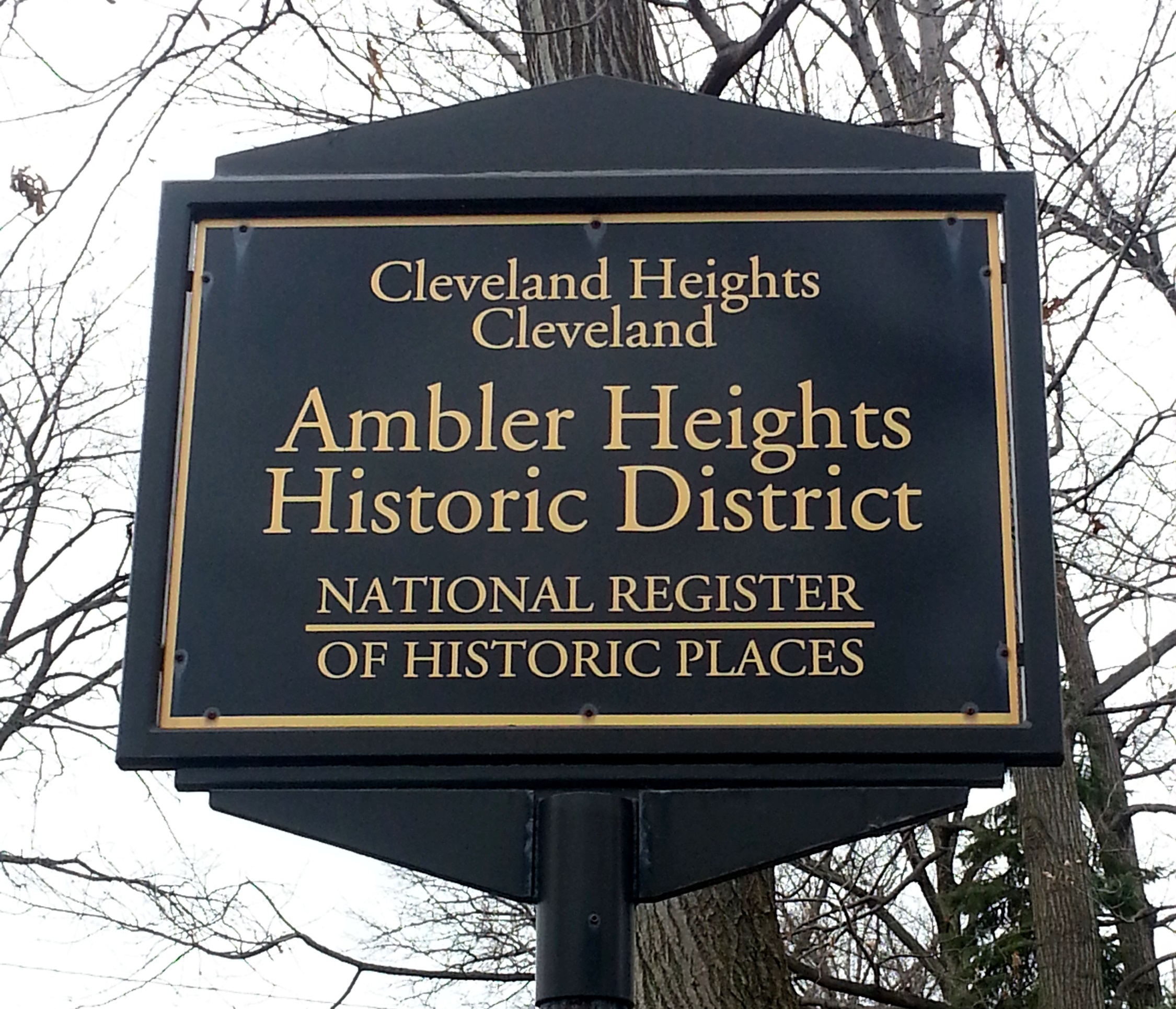 Marker denoting the Ambler Heights Historic District in the city of Cleveland Heights, Ohio, in the United States.